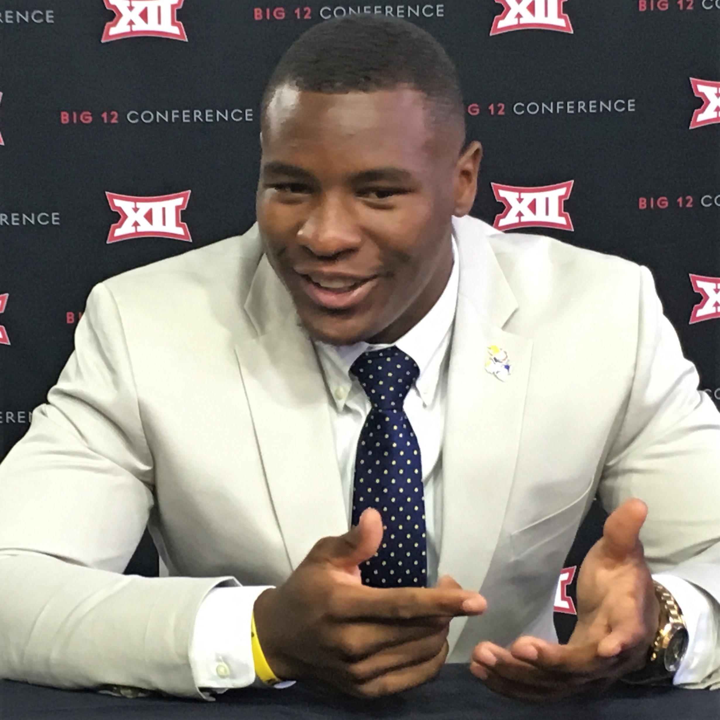 Dorance Armstrong, defensive end for the Kansas Jayhawks football team, at the 2017 Big 12 Conference Media Days in Frisco, Texas.